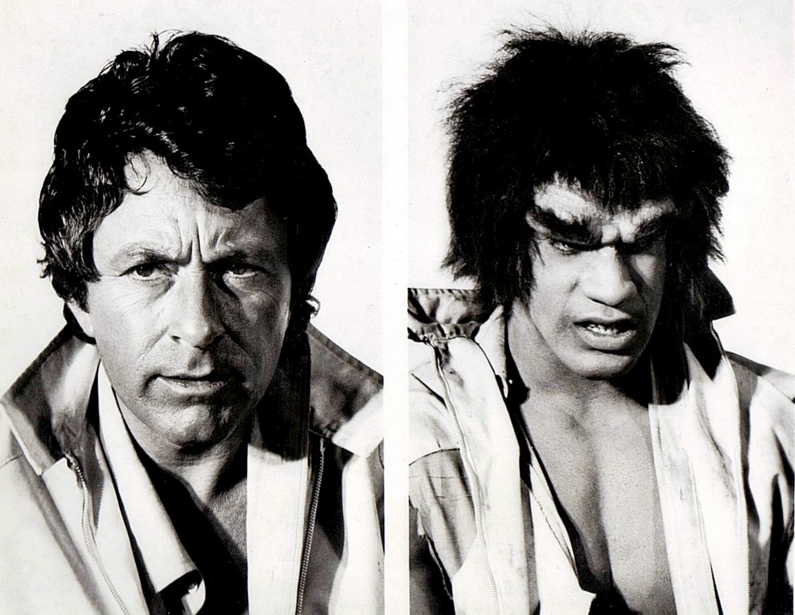 Photo of Bill Bixby as David Banner and Lou Ferrigno as The Incredible Hulk from the television special that preceeded the regular television series.